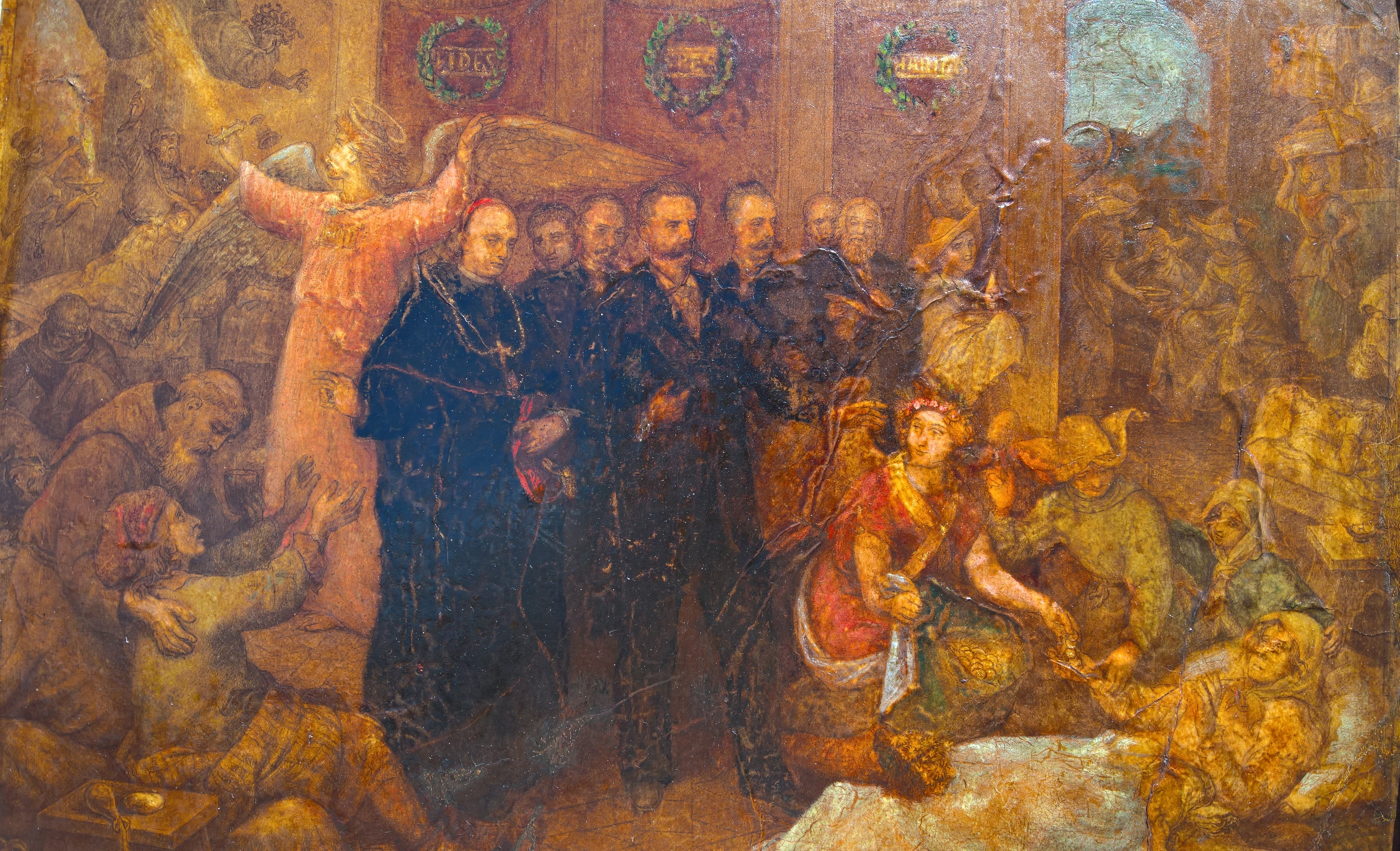 "Fides,Spes,Charitas" - eleophotography,author Dimitar Dobrovich